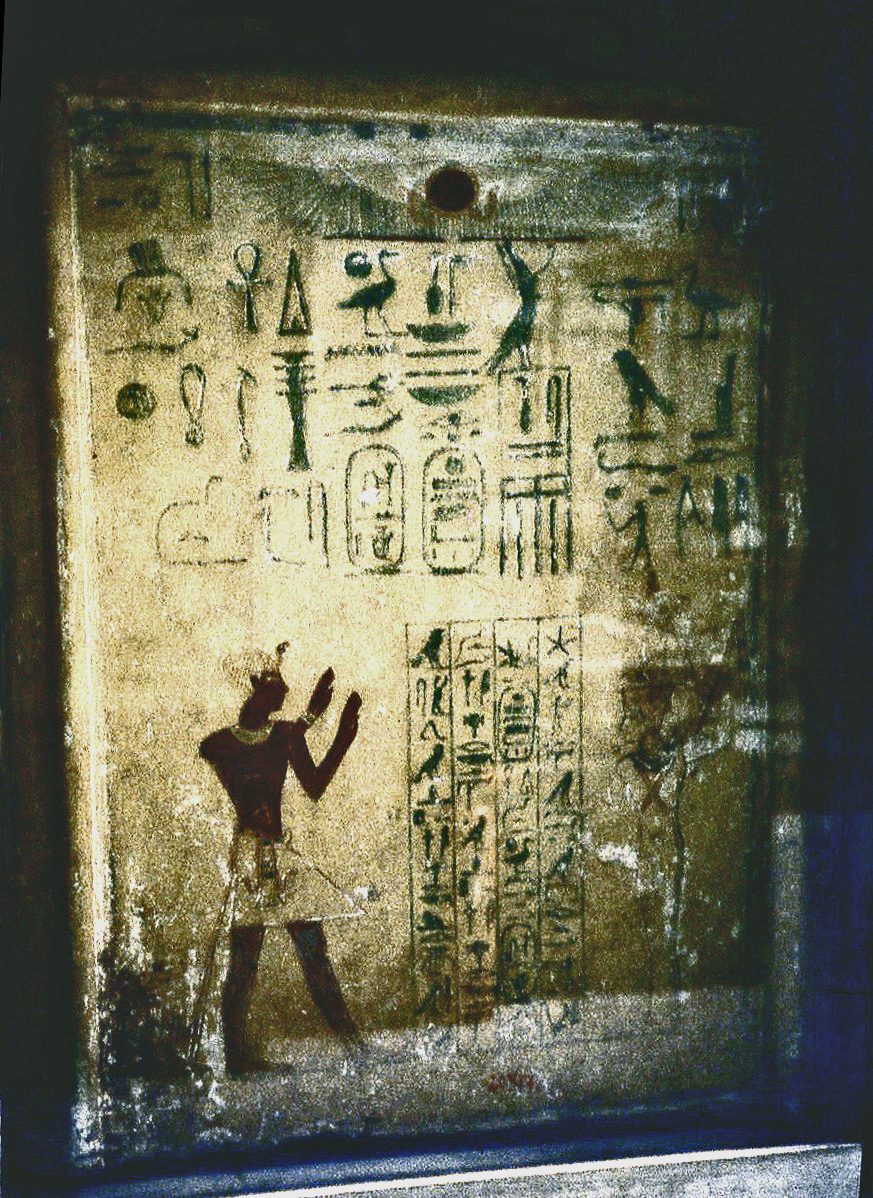 Stele of king Menkhaure Snaaib which Ryholt classifies as being part of the Abydos dynasty, contemporary with dynasties 14, 15 and Now in the Egyptian Museum, JE - [CG 20517). (Other Egyptologists, however, date Snaaib as either a late 13th dynasty or an early 16th dynasty Theban king. see BASOR(315) 1999, pp.47-73 paper by D. Ben Tor & James/Susan Allen.) Bibliography. Mariette, "Abydos" II (1880), p. 27 (right)